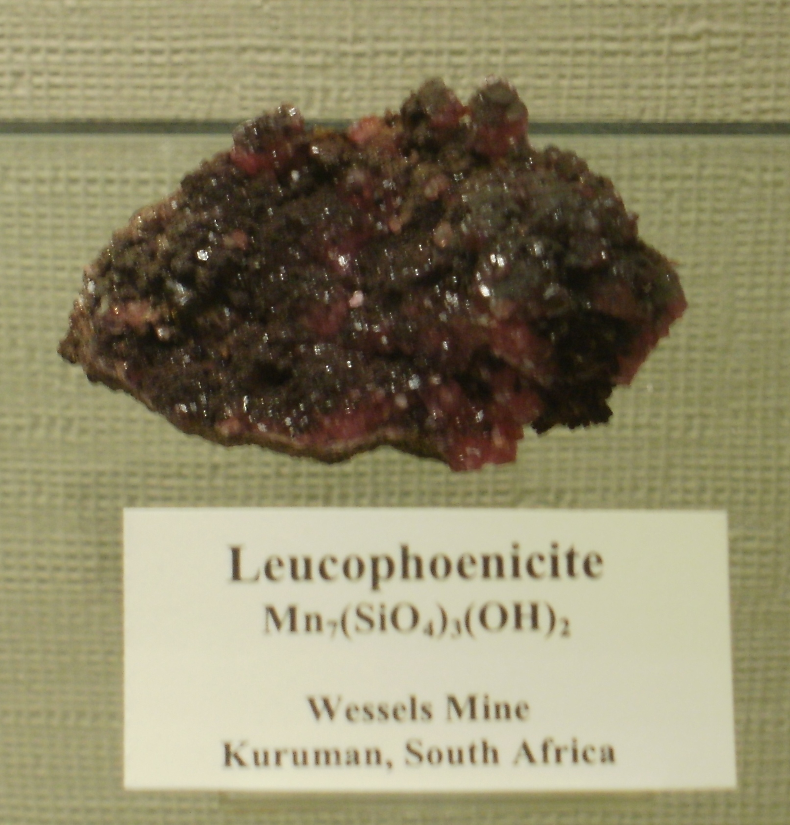 Leucophoenicite from the Wessels Mine in Kuruman, South Africa. Held in the A. E. Seaman Mineral Museum.